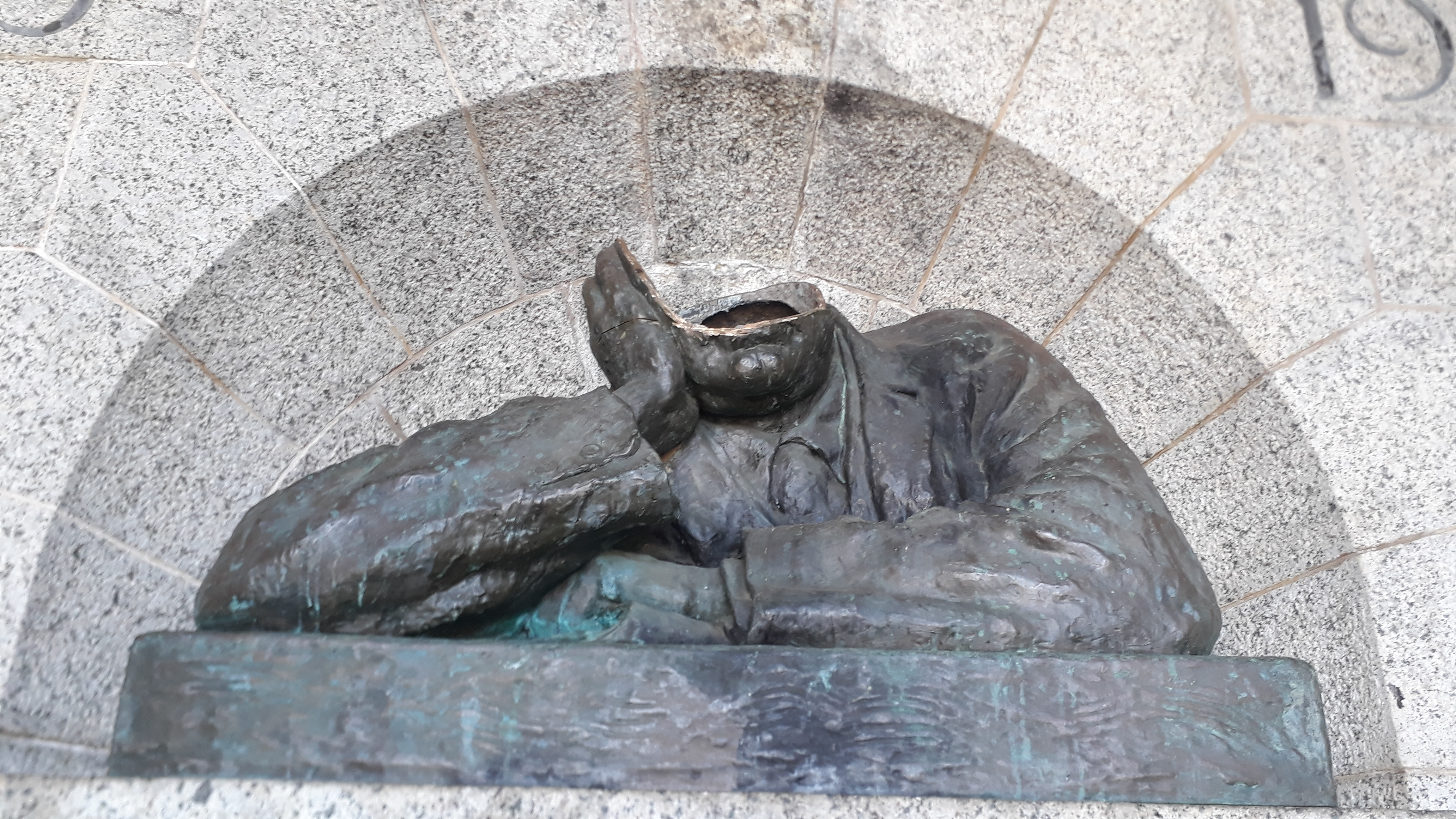 The bust of Cecil Rhodes at Rhodes Memorial in Cape Town, South Africa, vandalised overnight on 12-13 July 2020.